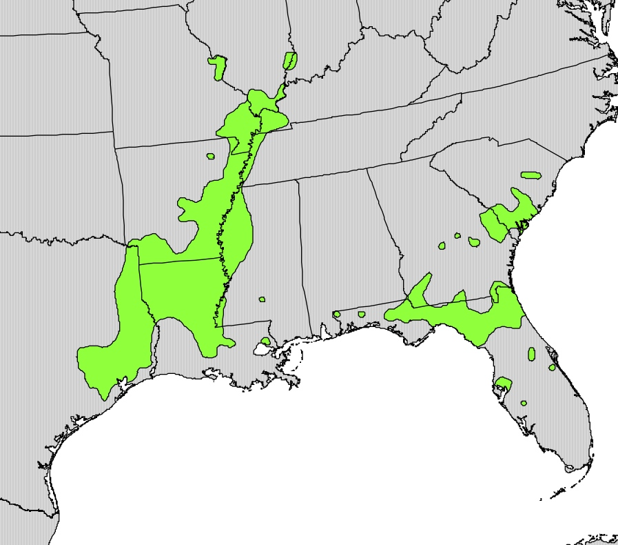 Range distribution map of Gleditsia aquatica — Water locust.